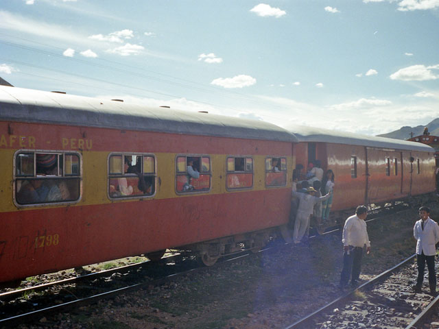 Between the Cusco and Jilaca railroads of Peru. Photo by user Inti-sol from October 1989.